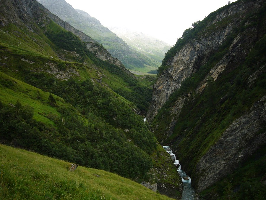 No road enters Val Curciusa, it is only reachable by foot. Seen from North.